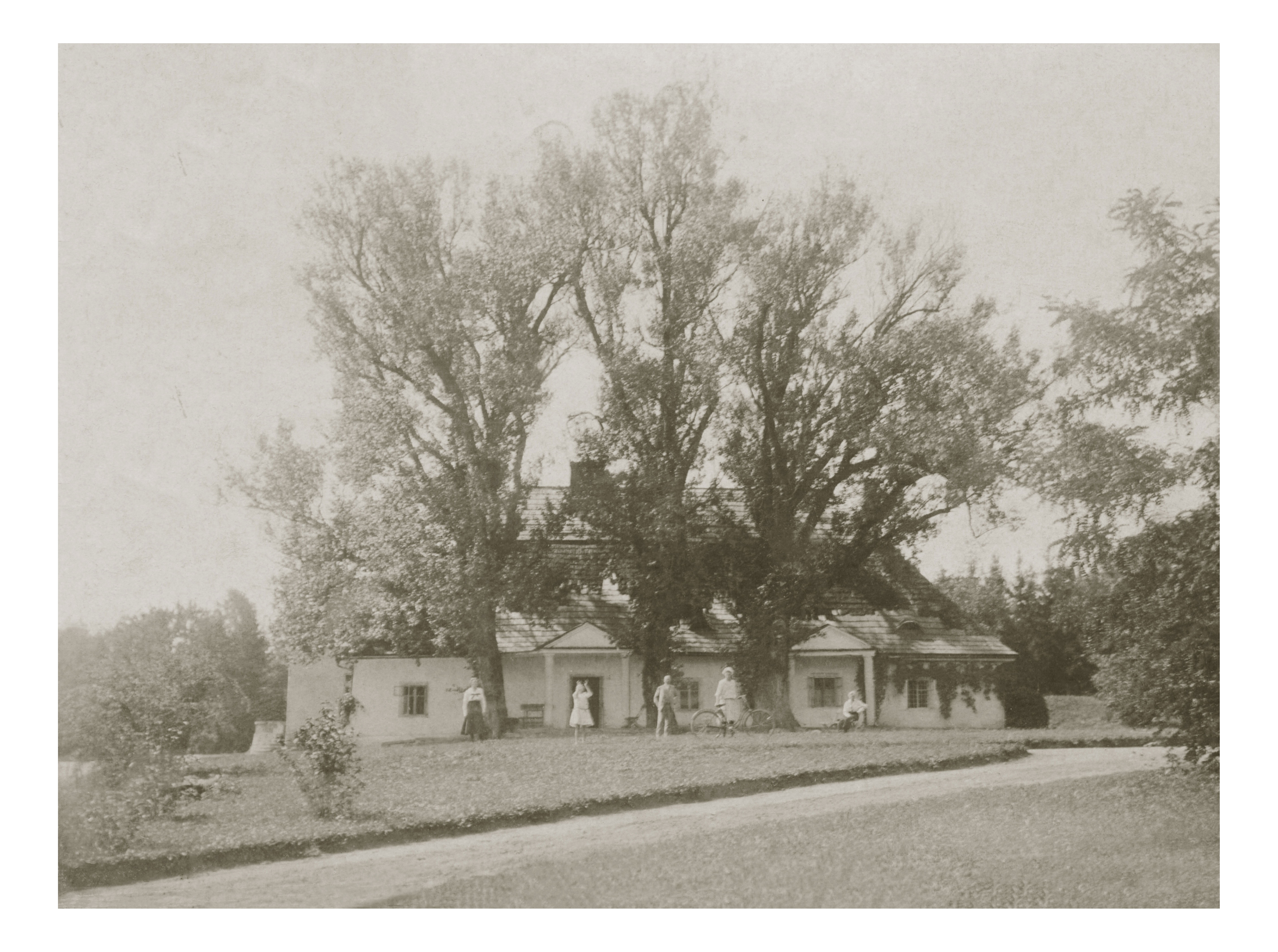 Klimkówka near Rymanów: north side of the manor house